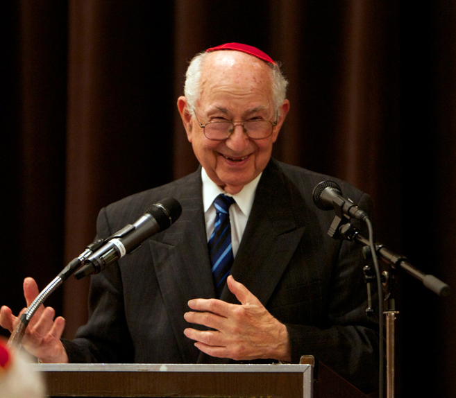 Rabbi Zvi Dershowitz delivers a speech to Sinai Temple's Men's Club on April 3, 2012. In his speech, Rabbi Dershowitz discussed how his escape from the Nazis in 1938 later motivated him to stand up for Jewish refugees from Yemen, Russia, and Iran, and welcome them into the Sinai Temple community.